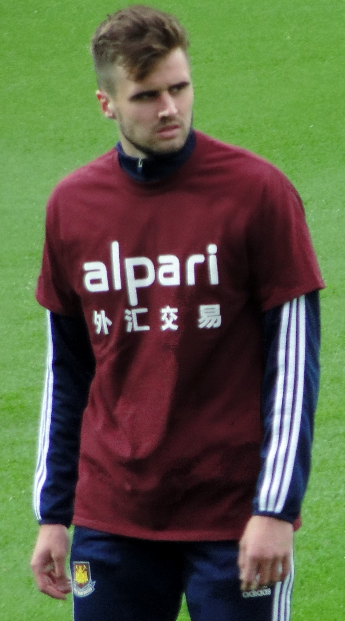 West Ham United player, Carl Jenkinson, warming up before their Premier League win against Liverpool at the Boleyn Ground, London, September 2014